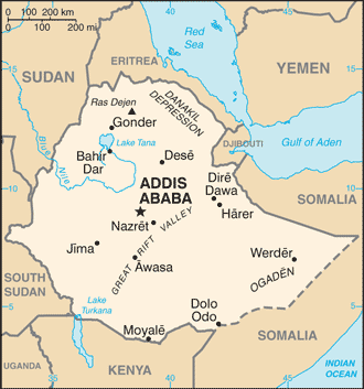 Ethiopia map from CIA World Factbook, converted from original GIF format (July 2011 version showing South Sudan)